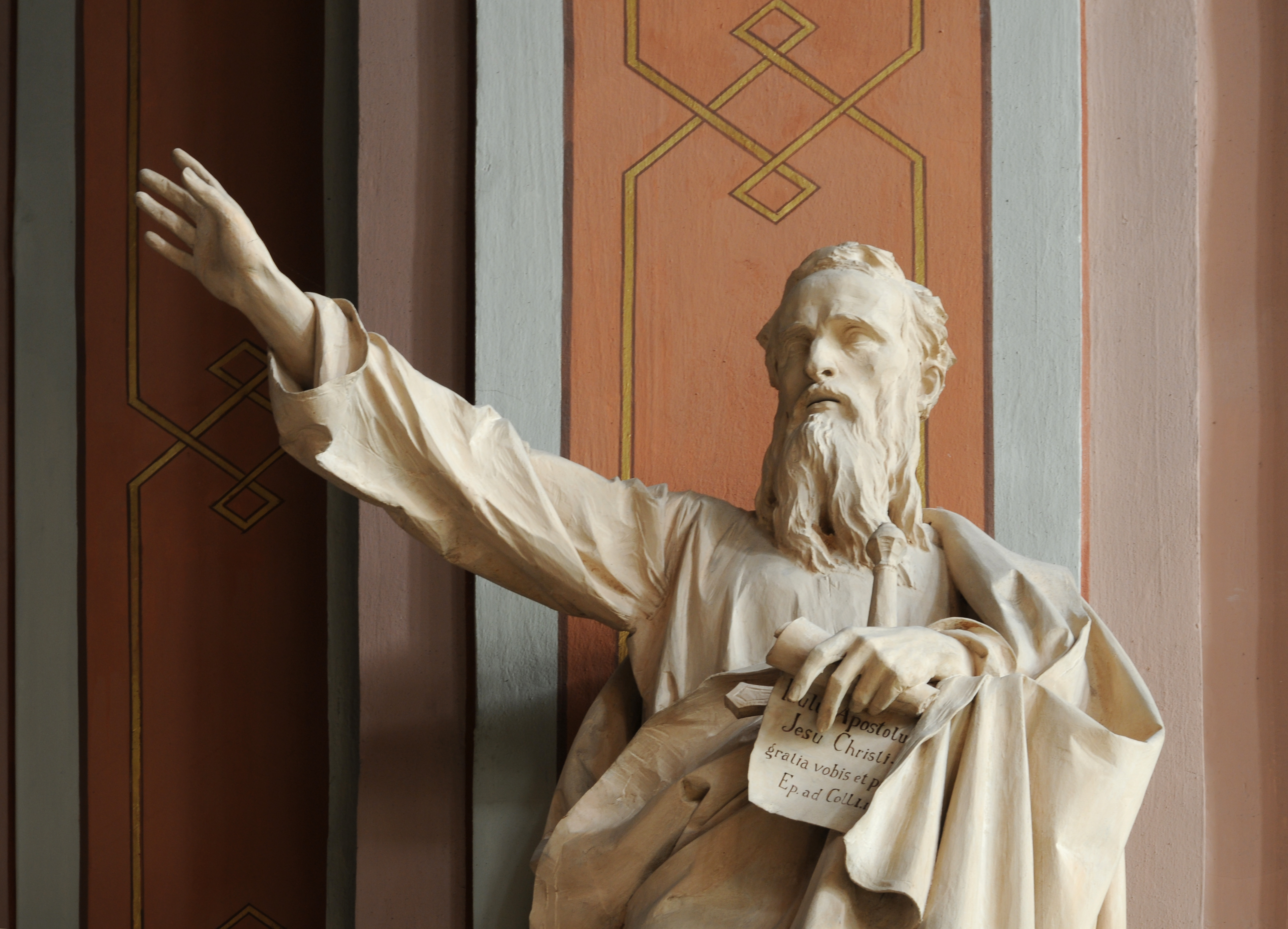 Saint Paul in the Parish church of St. Ulrich in Gröden - Ortisei Val Gardena. Sculpture by Ludwig Moroder